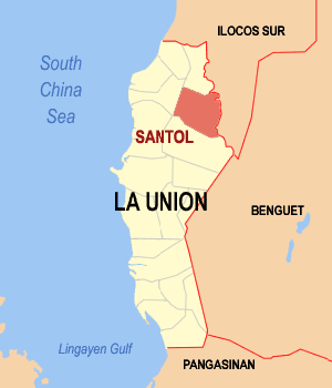 Map of La Union showing the location of Santol